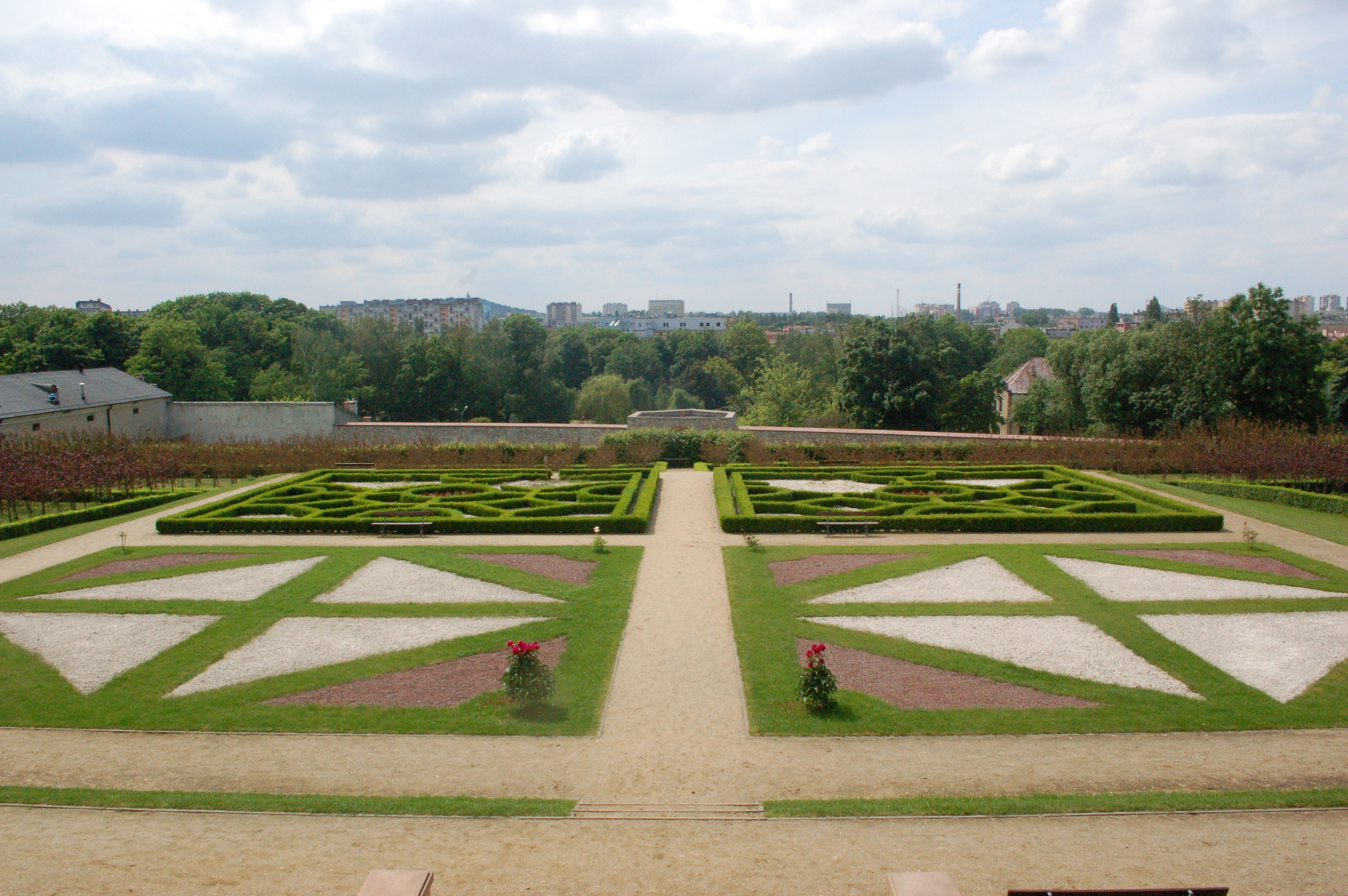 The terraced Italian Garden, at the Palace of the Kraków Bishops in Kielce, Poland